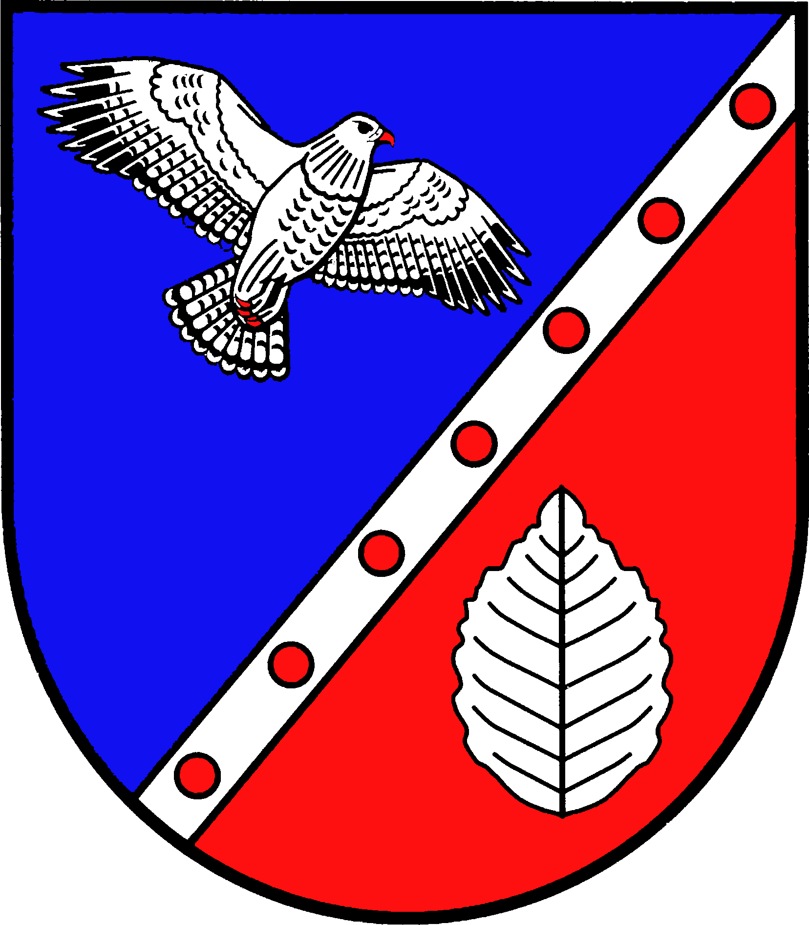 Coat of arms of the former Amt (county) Böklund in Schleswig-Holstein, Germany.